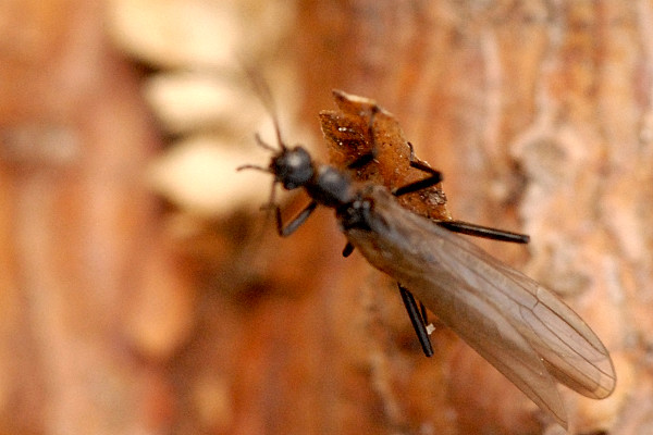 Leuctra nigra from Commanster, Belgian High Ardennes .